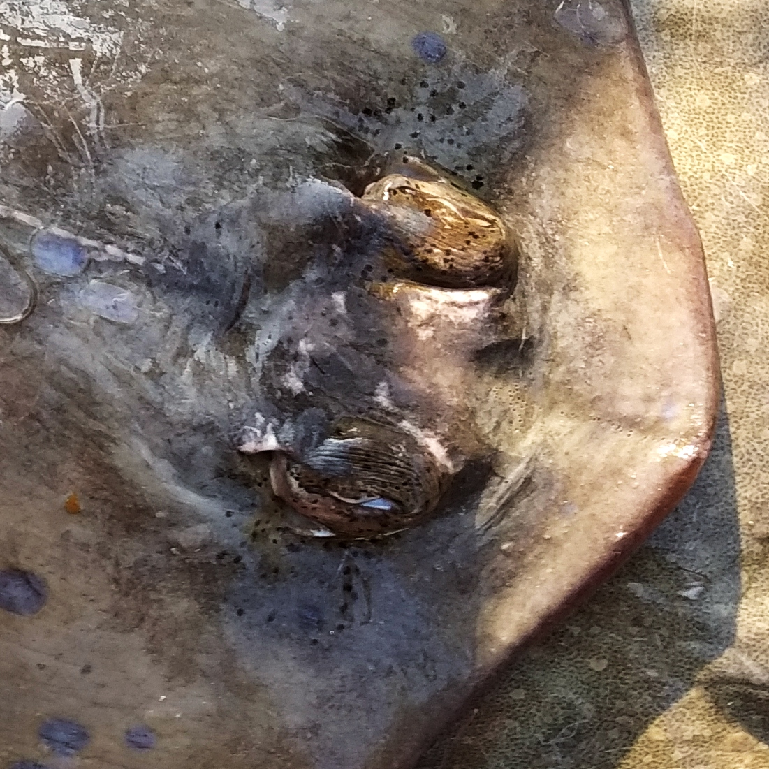 Oriental blue-spotted maskray (Neotrygon orientale), head close up to show mask pattern and black speckles around its eyes. From Labuan fish-market, Pandeglang, Banten, Indonesia.